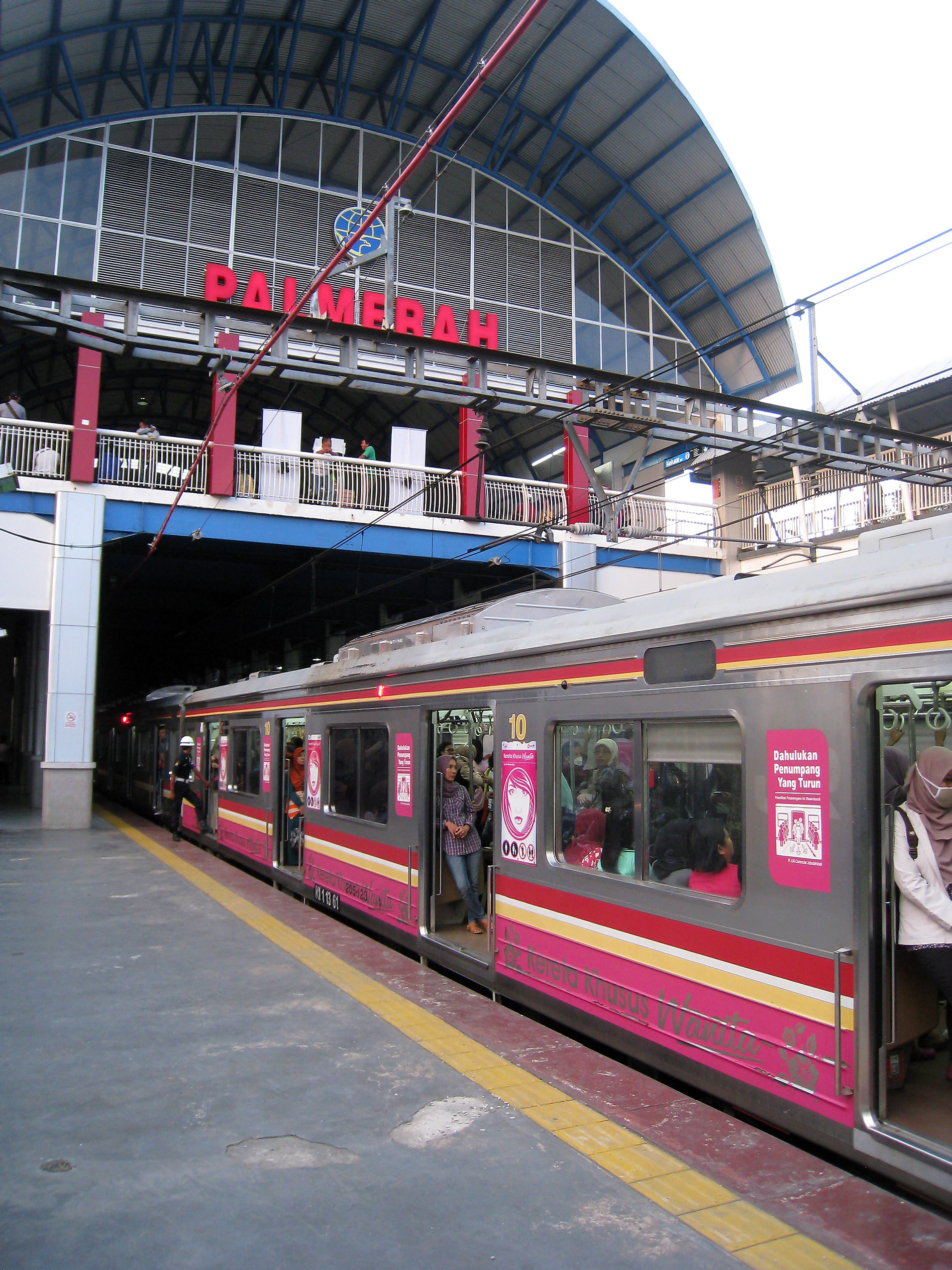 Commuterline electric train women-only passenger car at Palmerah Station, Gelora, Central Jakarta.